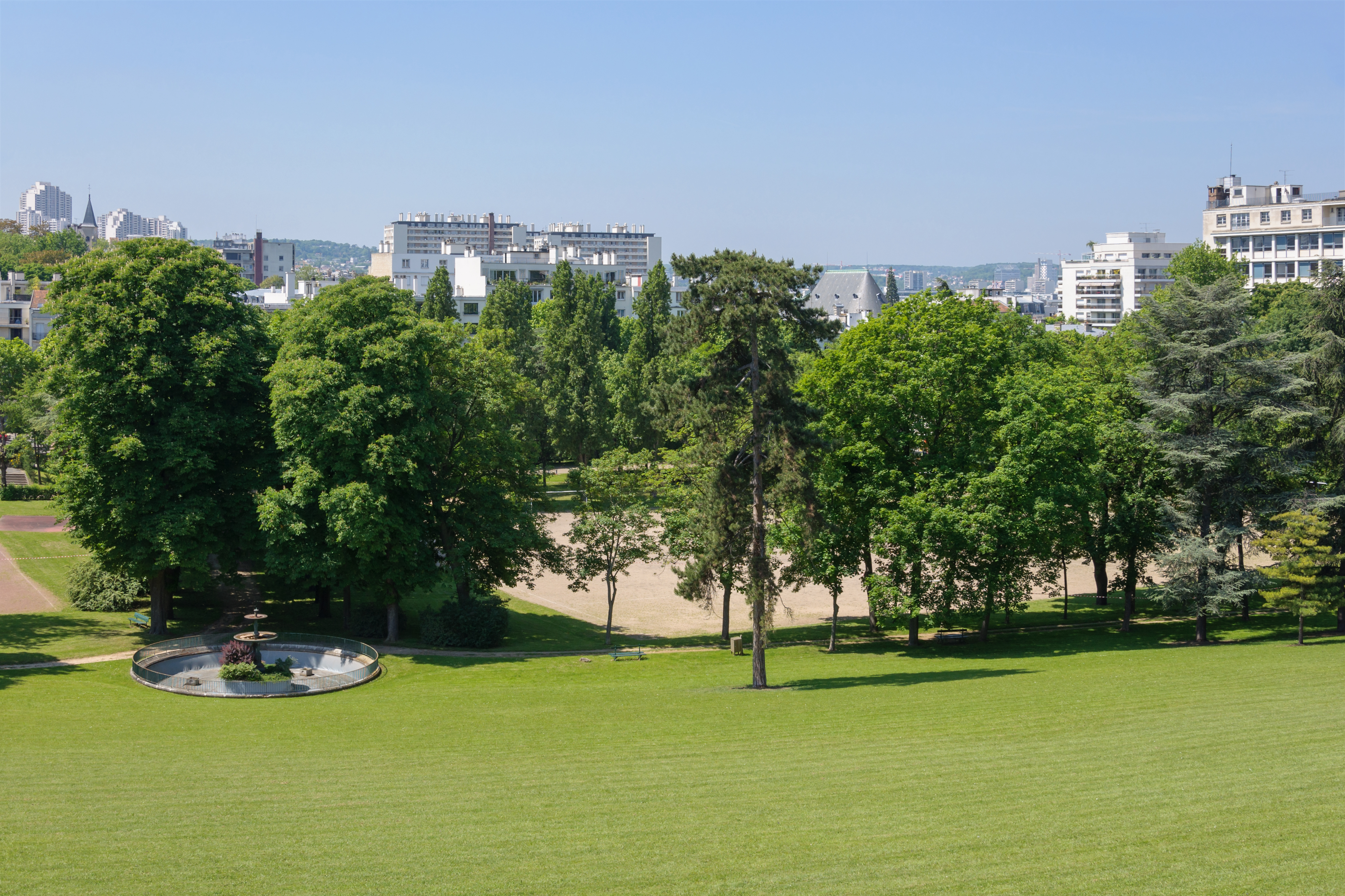 Lycée Michelet in Vanves, Hauts-de-Seine, France: a view of the park seen from the terrace.